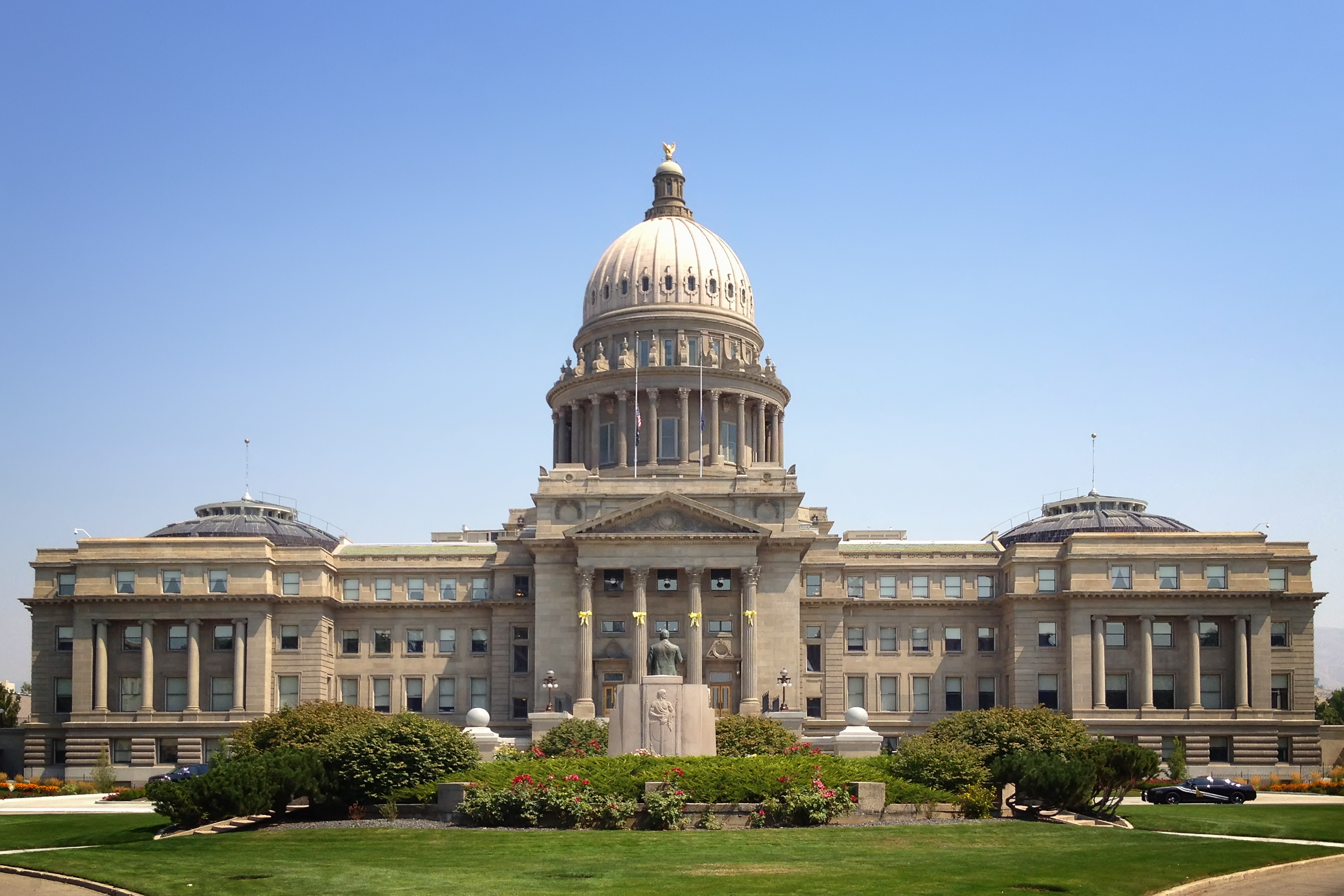 A photo of the State Capitol taken during a trip to Boise, Idaho.